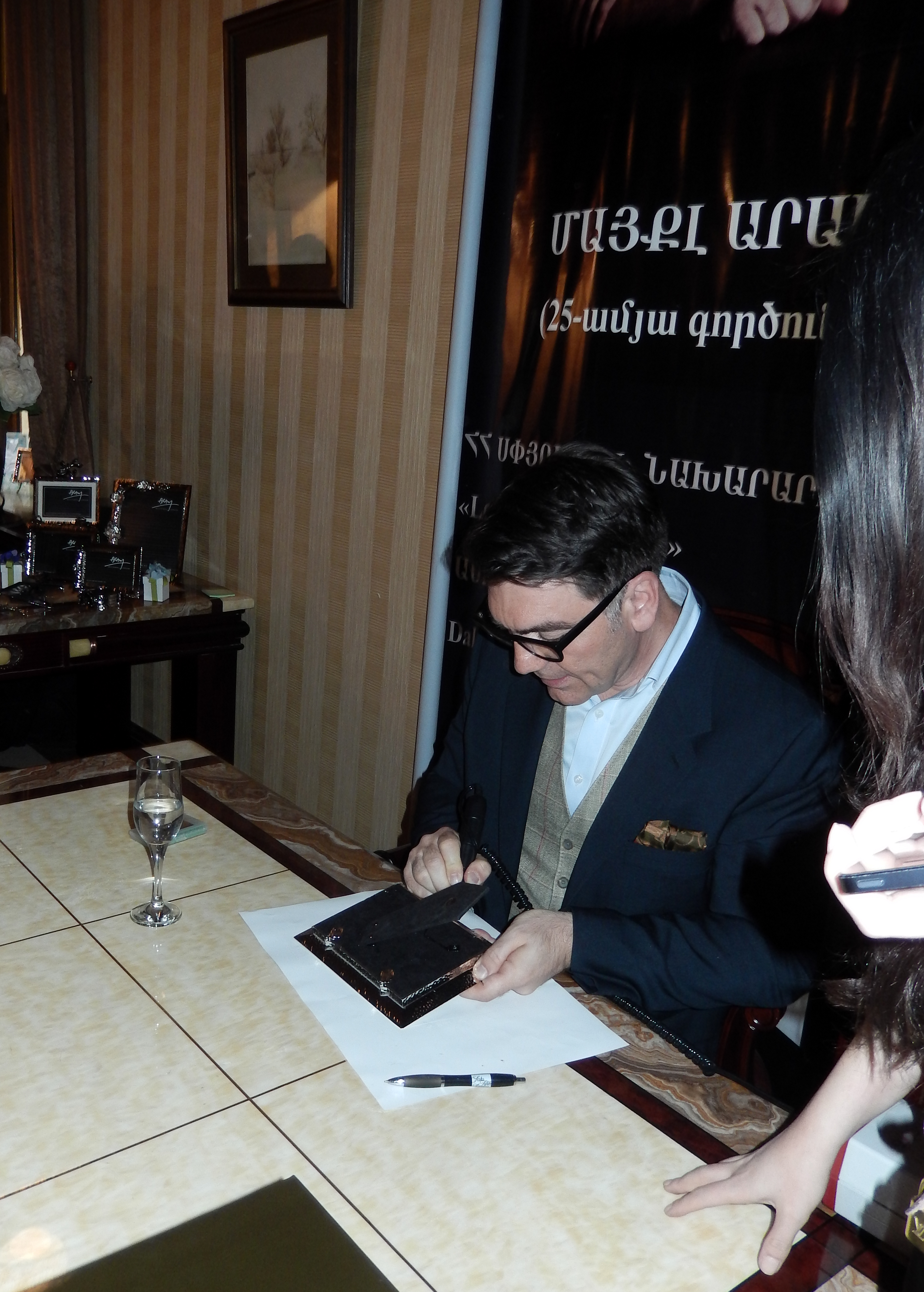 Exhibition of Michael Aram’s metallic and decorative items in Yerevan